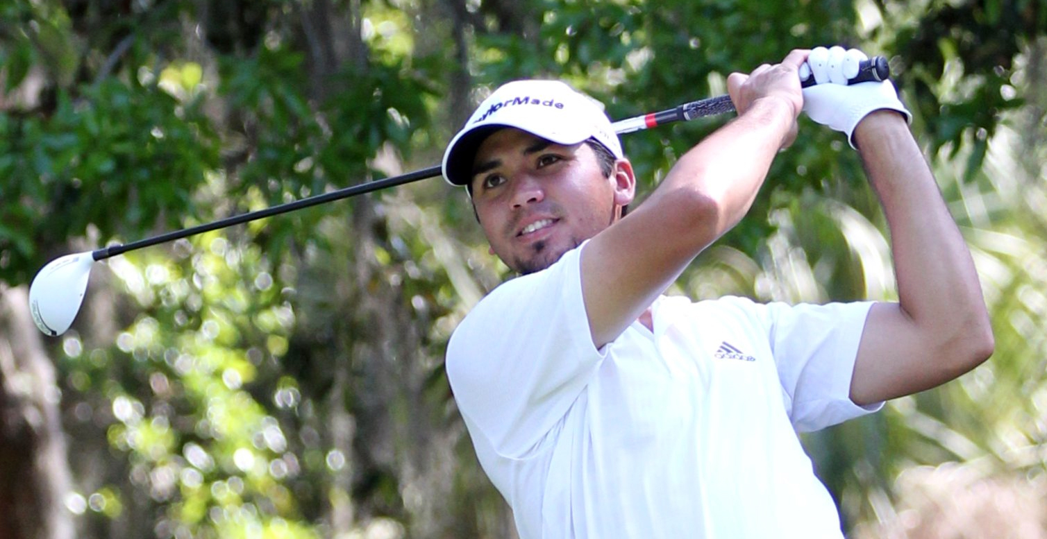 The Heritage Pro-Am April 20, 2011 Hilton Head, SC